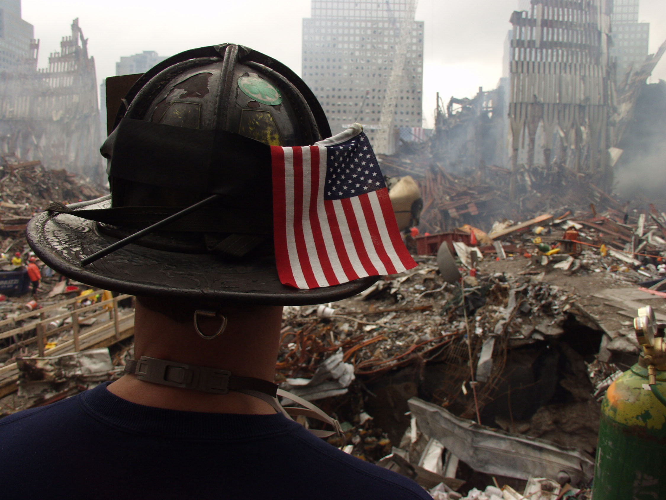 New York, NY, September 25, 2001 -- A firefighter surveys the remaining shell and tons of debris of the World Trade Center. Clearing the rubble from the collapsed twin towers and other surrounding buildings is a daunting task for the hundreds of workers at the site of the terrorist attack. Photo by Mike Rieger/ FEMA News Photo